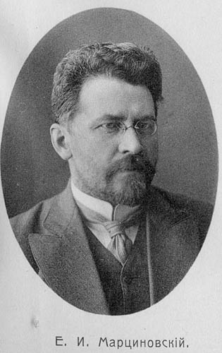 Evgeny Ivanovitch Marcinovskii